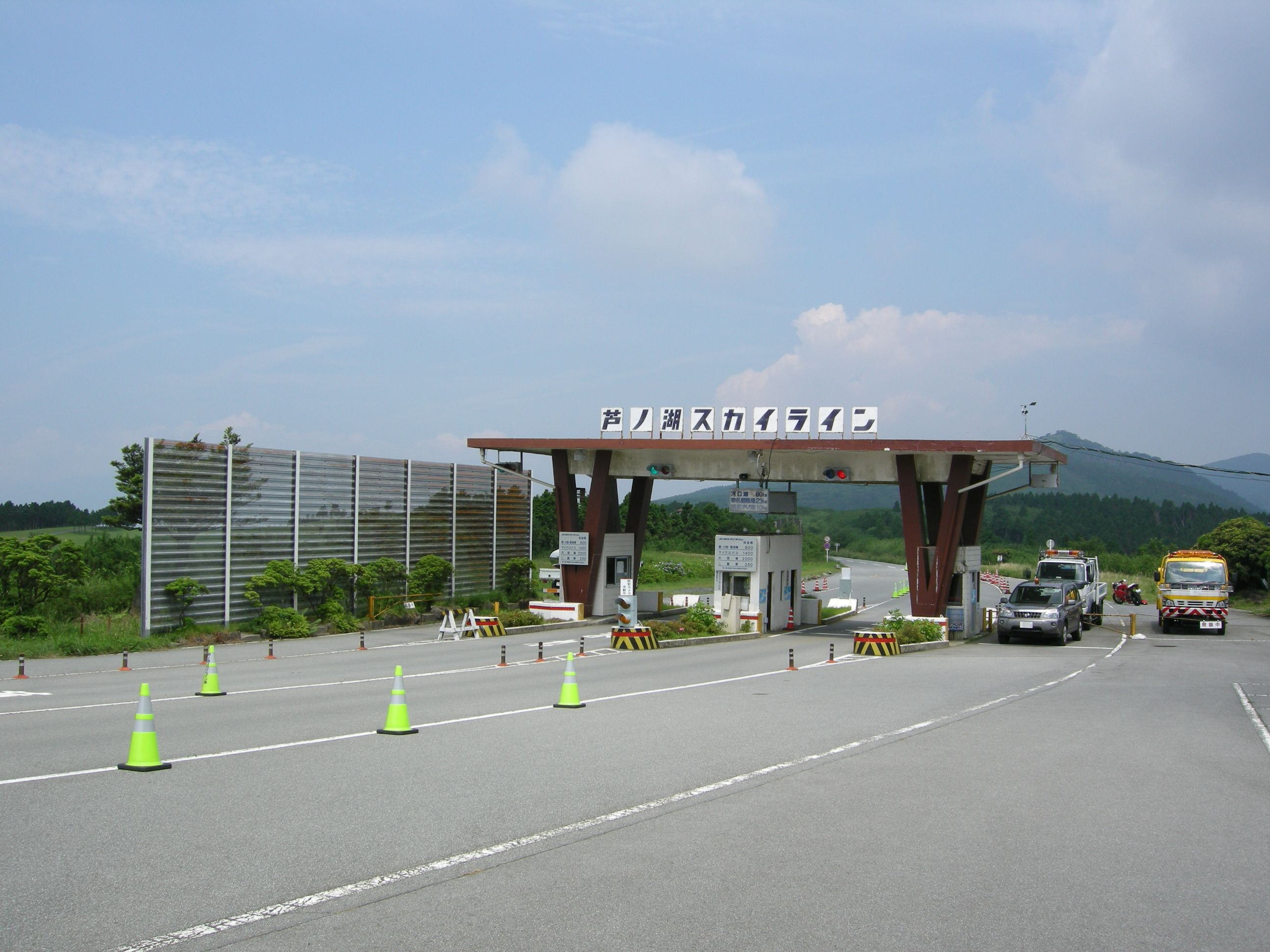 Photo by me Date:13/July/2008 Ashinokoskyline tollgete